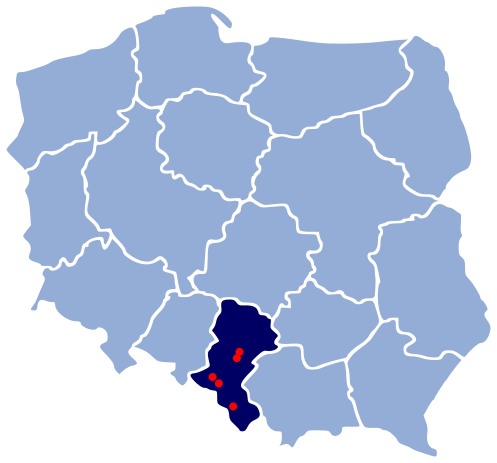 სილესიის უნივერსიტეტის შენობების მდებარეობა